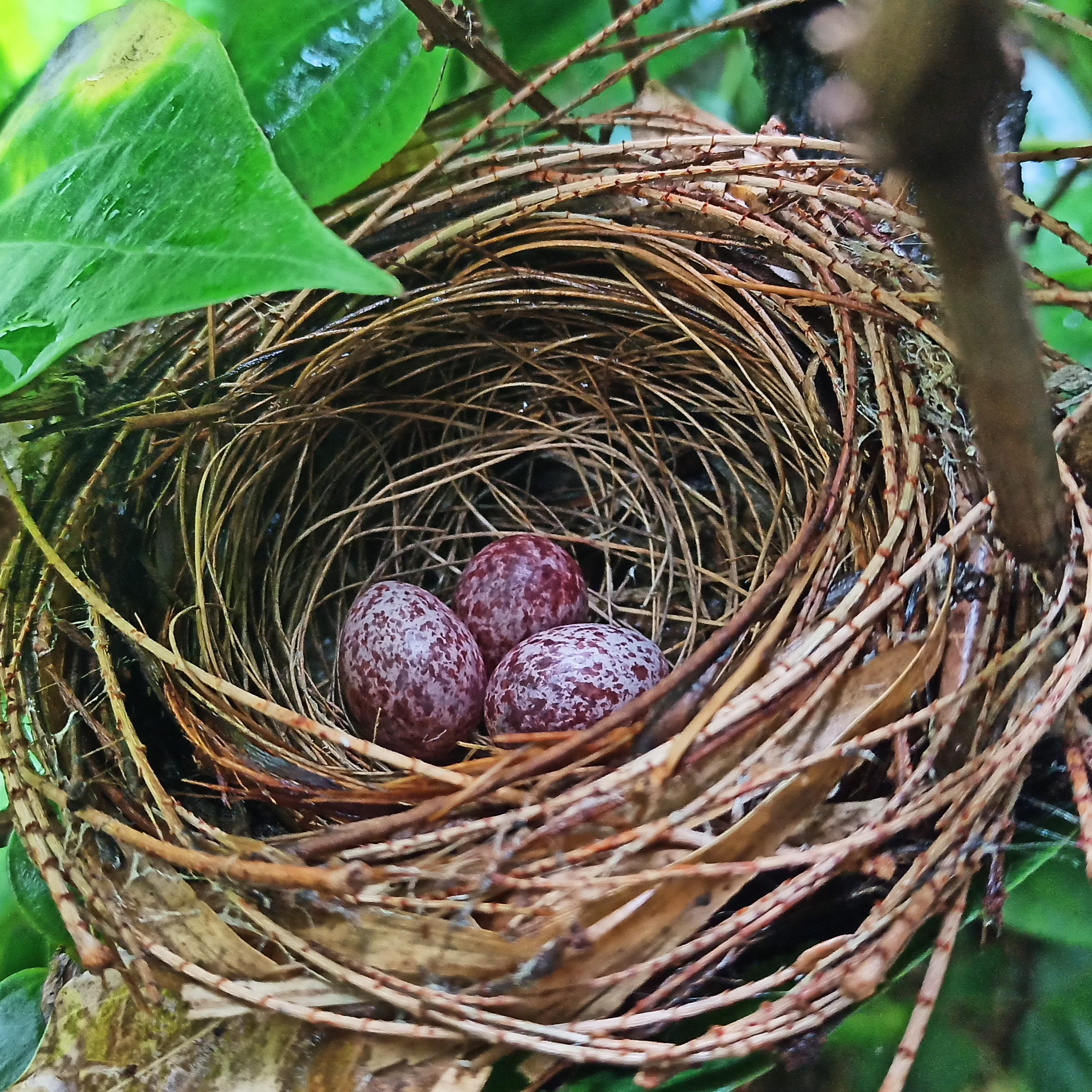 Eggs in the nest of Red Whiskered Bulbul in Bangalore, India.